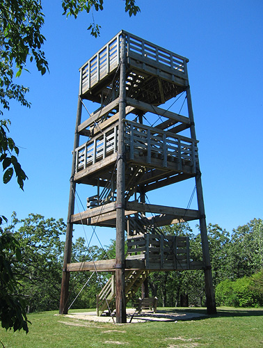 I took this photograph on July 15th, 2006, at Lapham Peak State Park. I used a Canon S400 Powershot.